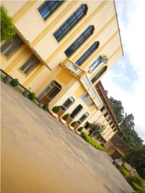 It's our college chapel